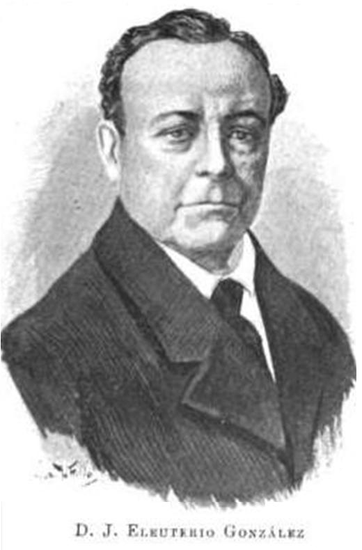 Don Eleuterio Gonzalez (Drawing of D.A. Utrillo) de 1906. Public Domain Image. José Eleuterio González Mendoza "Gonzalitos" (1813-1888)was an important physician, botanic, politic and philanthropist from Monterrey Mexico. He established the first Public University and the first Hospital in Nuevo Leon Estate (Mexico).